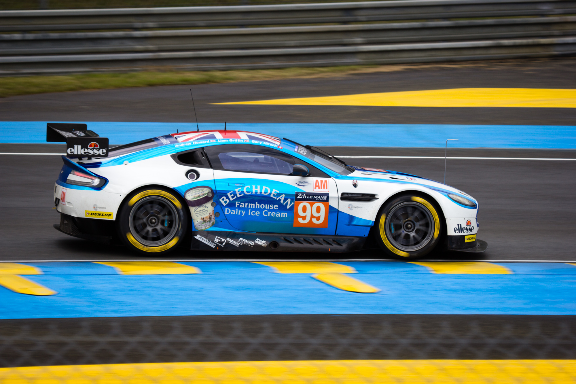 Drivers: Andrew Howard, Liam Griffin, Gary Hirsch